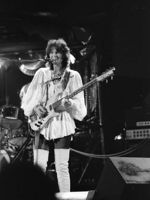 Chris Squire on bass.